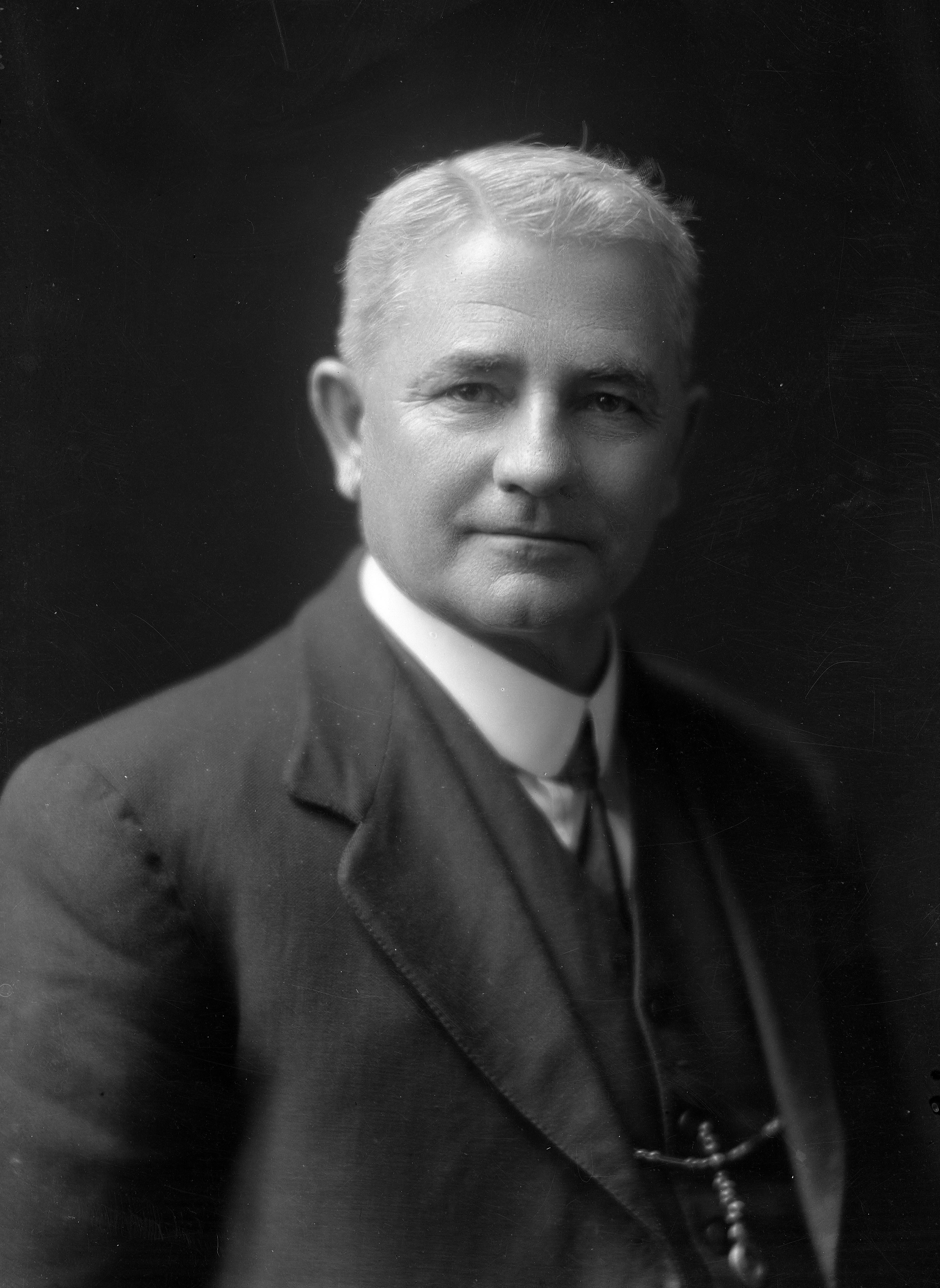 Portrait photograph of Henry Edmund Holland, taken by Stanley Polkinghorne Andrew in 1925.